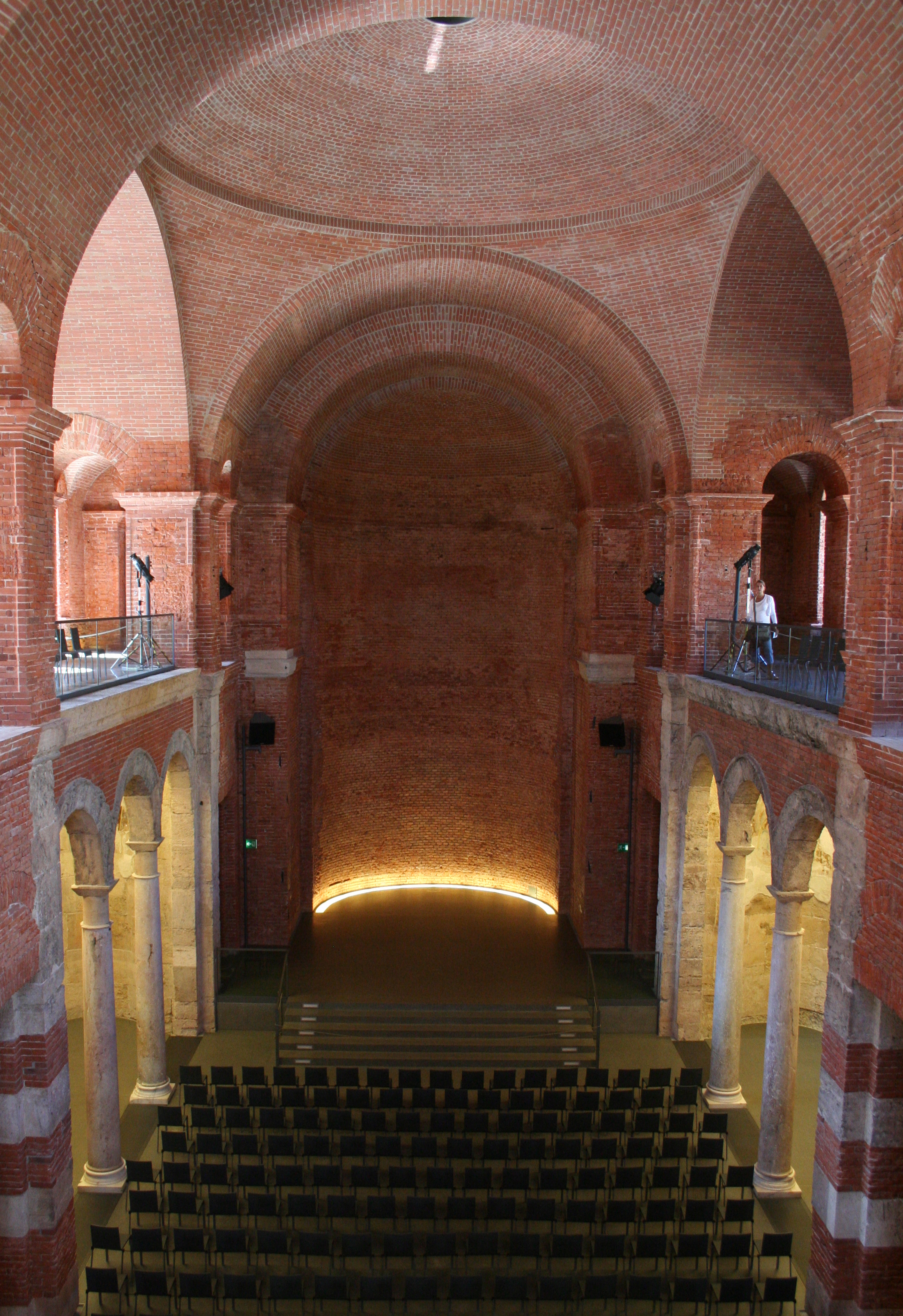 Interior of Allerheiligen-Hofkirche, Munich, looking east from above the entrance